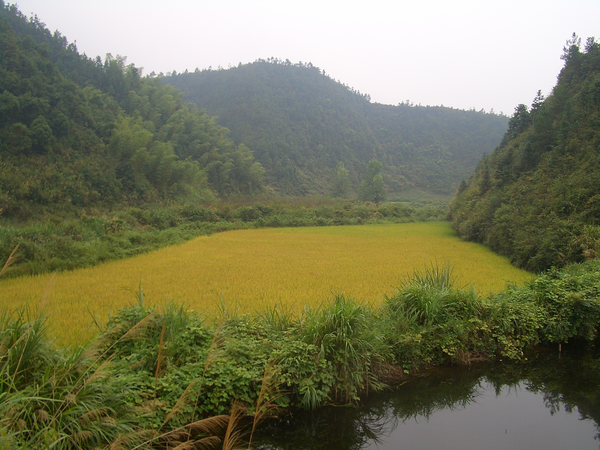 A pond and a rice field by the side of G106 in Tongshan County (Hubei), a few km east of Hengshitan Zhen (横石潭镇) and the junction for the Jiugong Mt road.